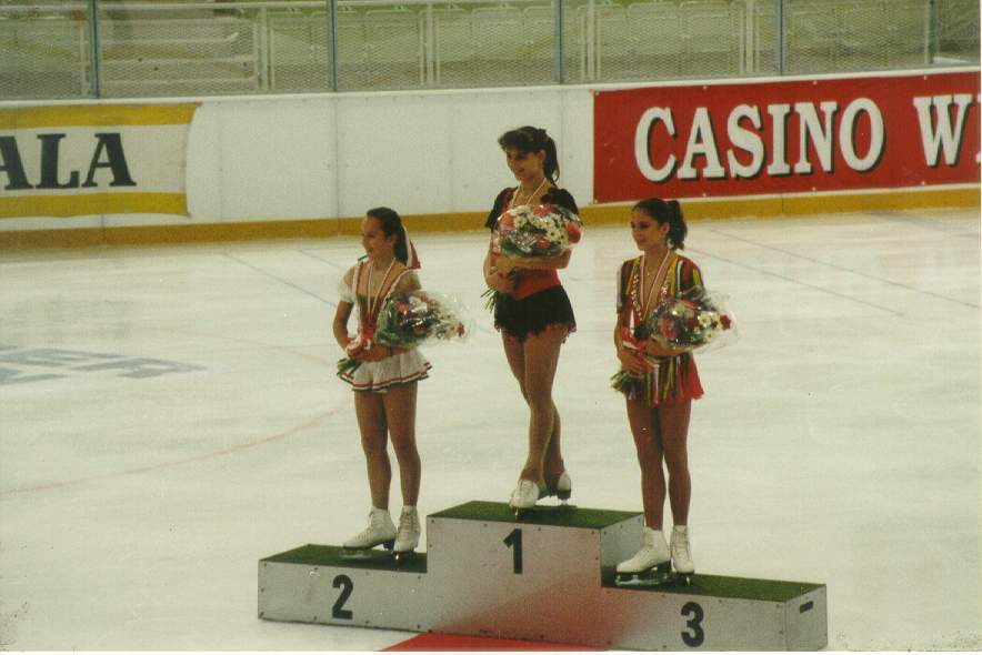 Podium photo of Karl Schäfer Memorial 1995